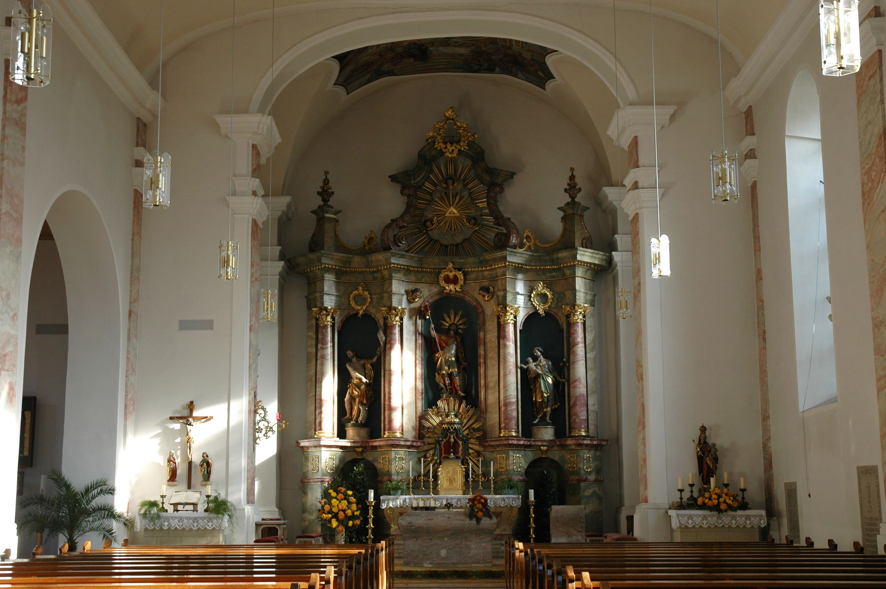 altar of catholic church St. Mauritius in Oedheim (Germany).